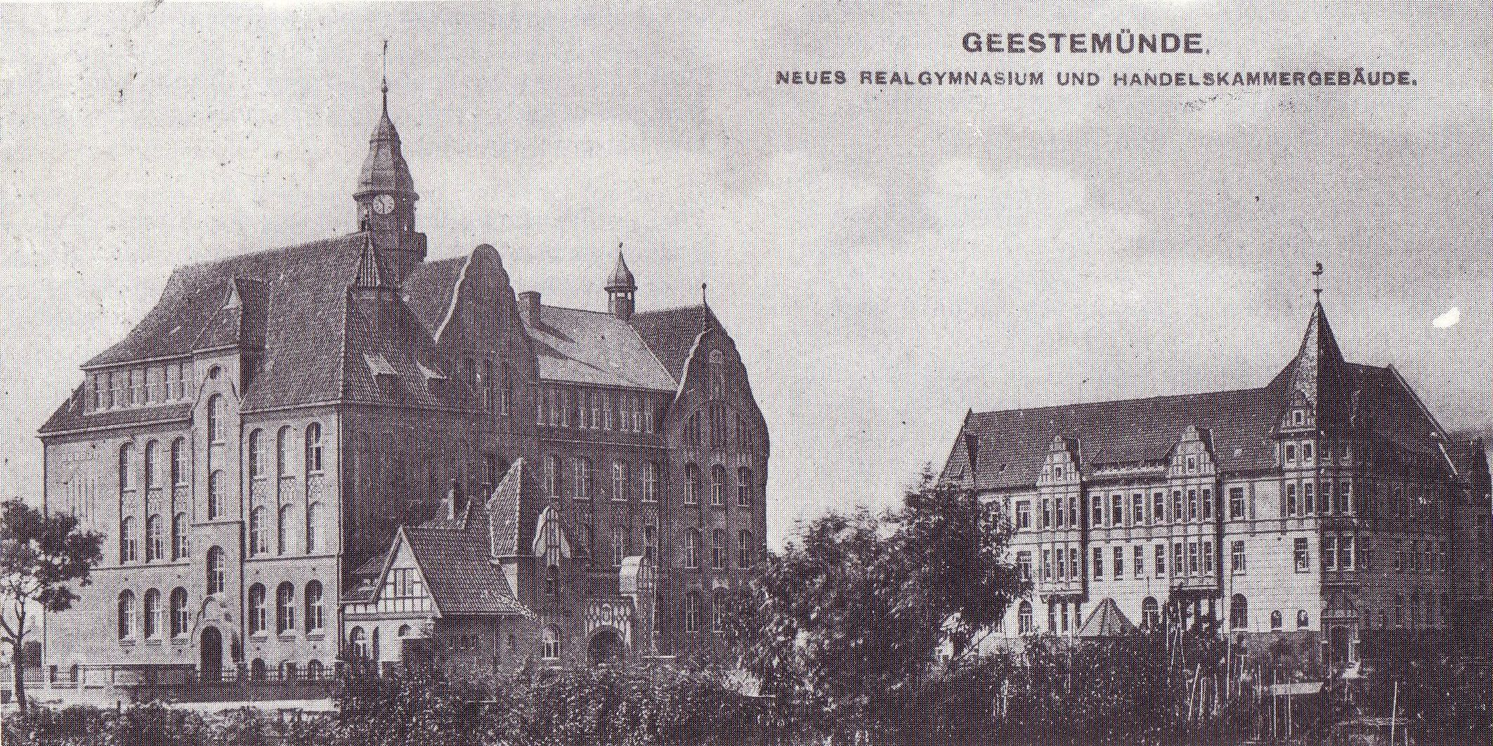 Realgymnasium (left) and chamber of commerce (right) at Geestemünde (now part of Bremerhaven), Germany